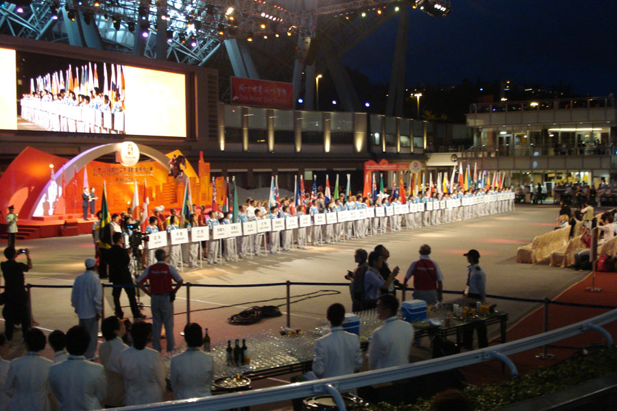 中文（香港）: The welcome ceremony of Beijing 2008 - Equestian Event in Hong Kong